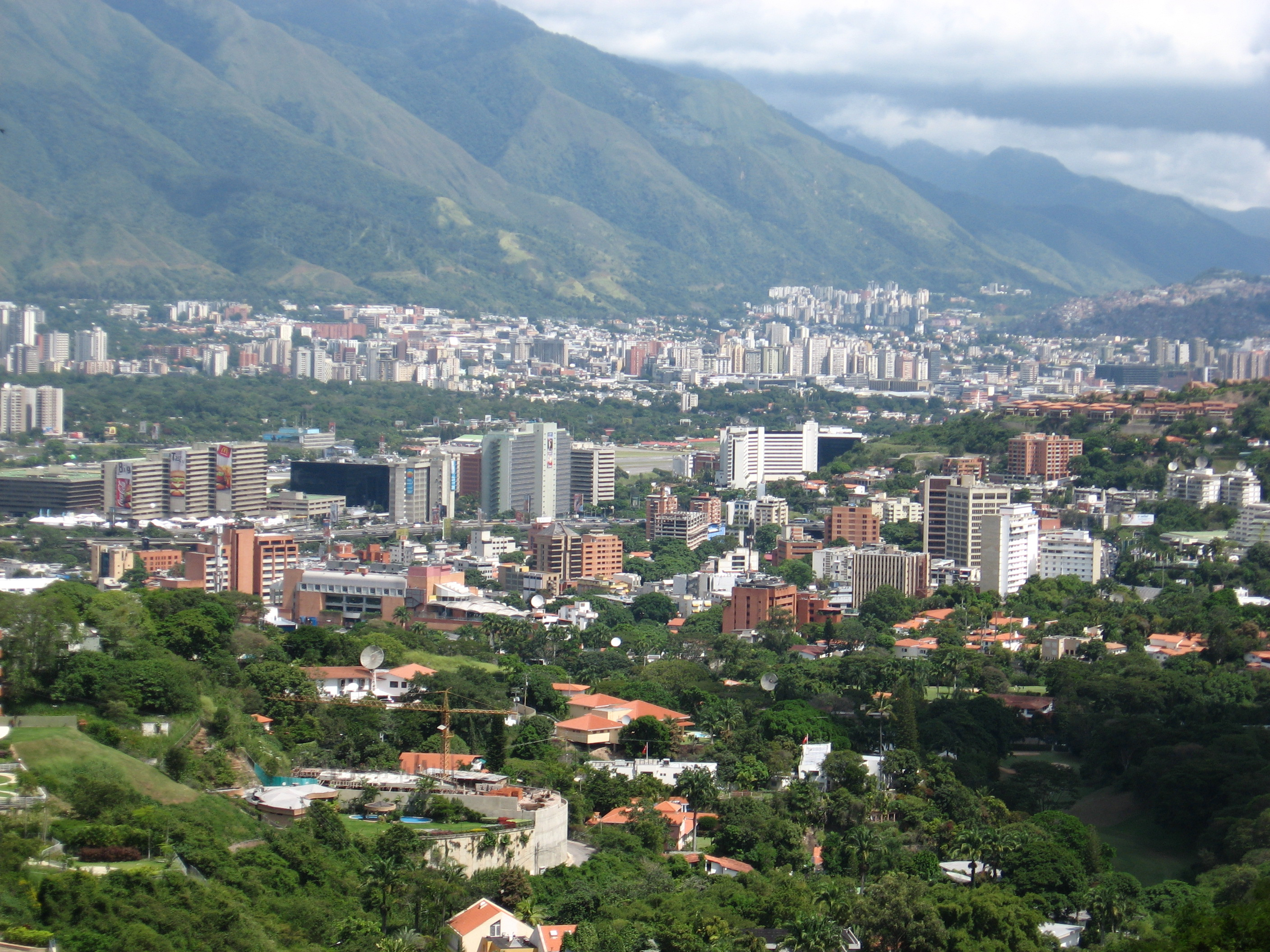 A view of Caracas from Valle Arriba.